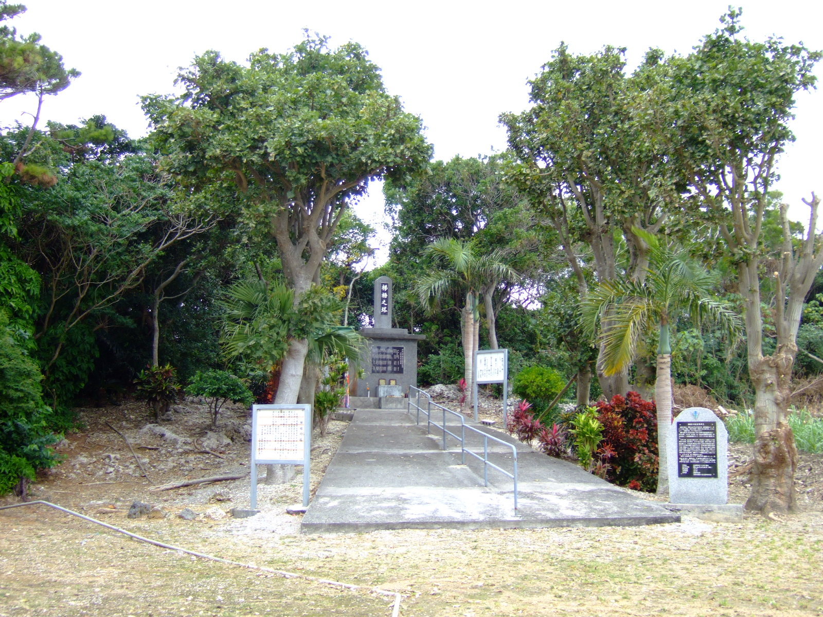 The Deigo Monument in Okinawa (Showa girl's high school), long shot